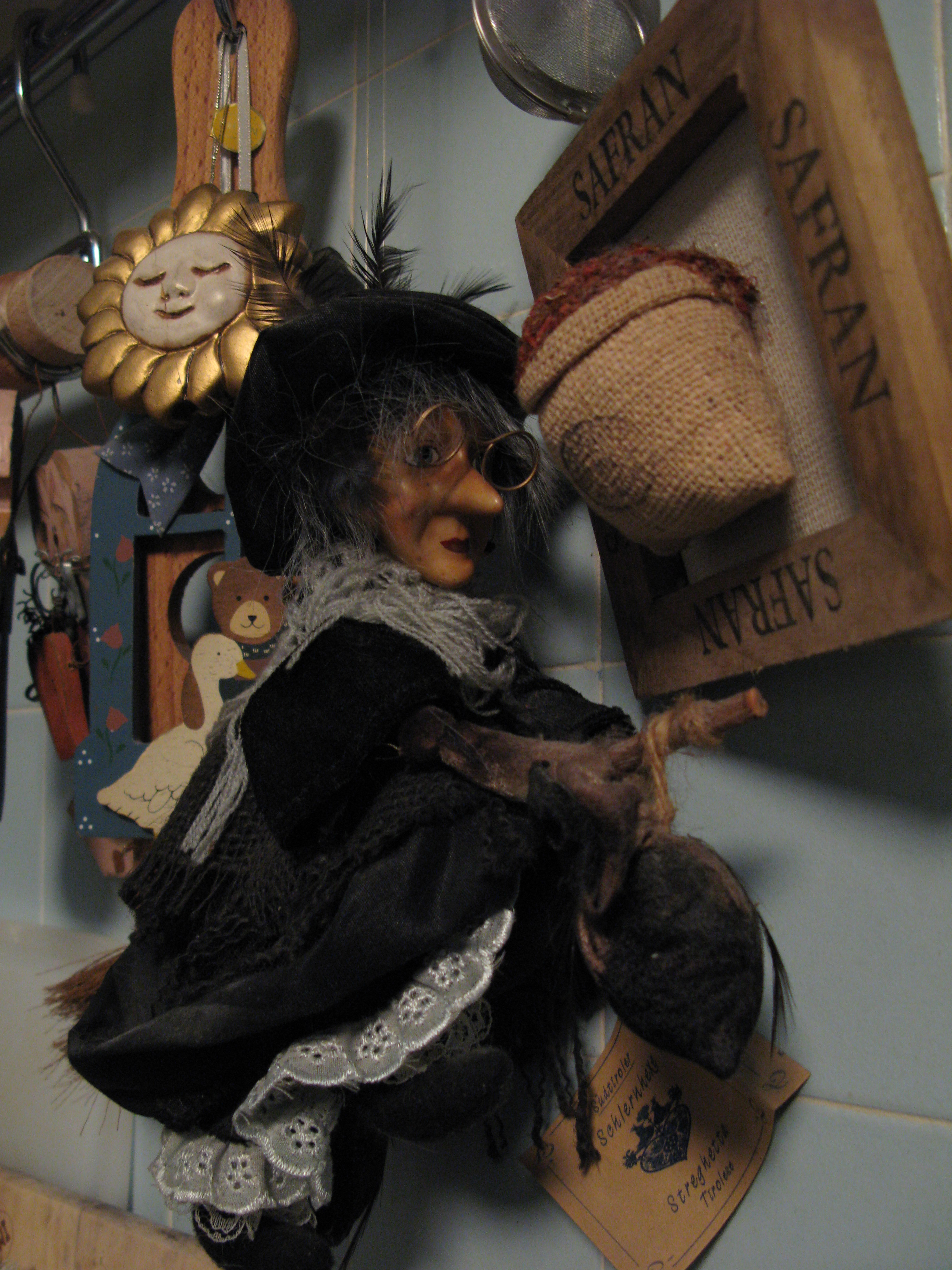 La Befana riding a broomstick.